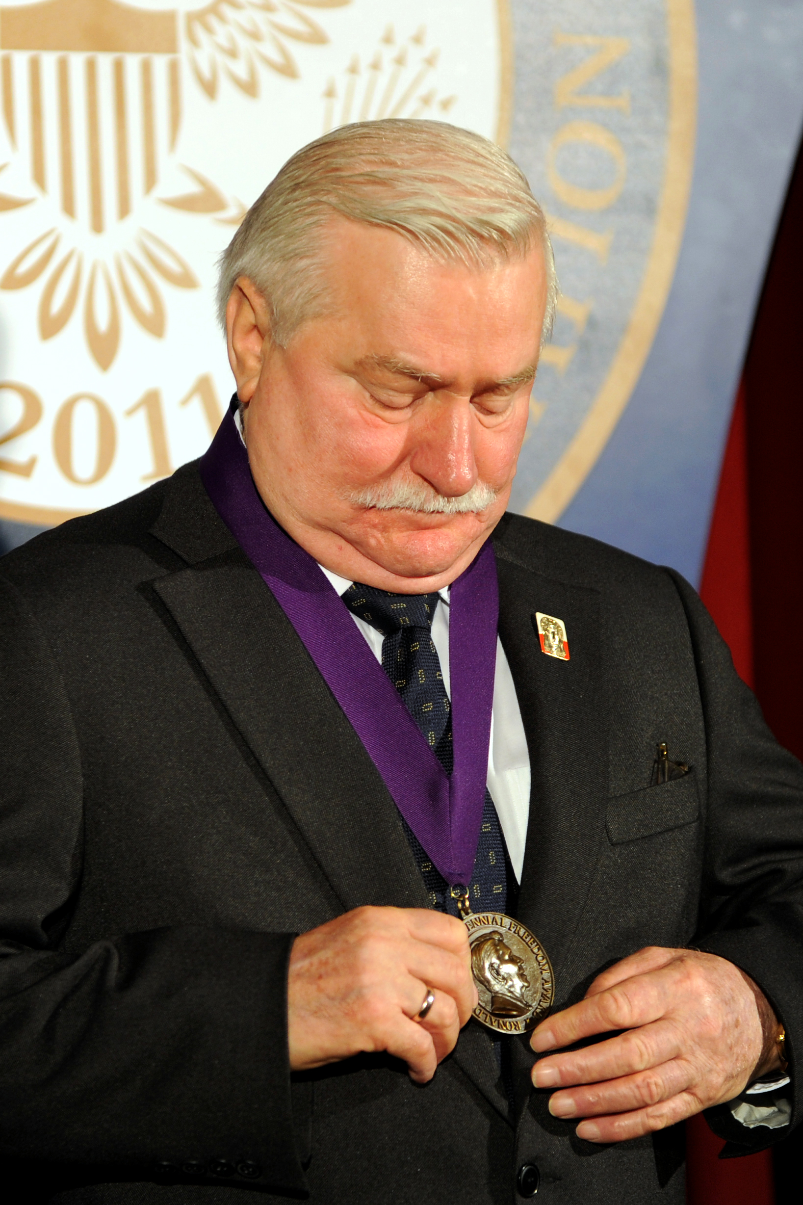 Former Polish President Lech Walesa looks at the 2011 Ronald Reagan Centennial Freedom Award he received during the Ronald Reagan Centennial Gala in Washington, D.C., May 24, 2011.